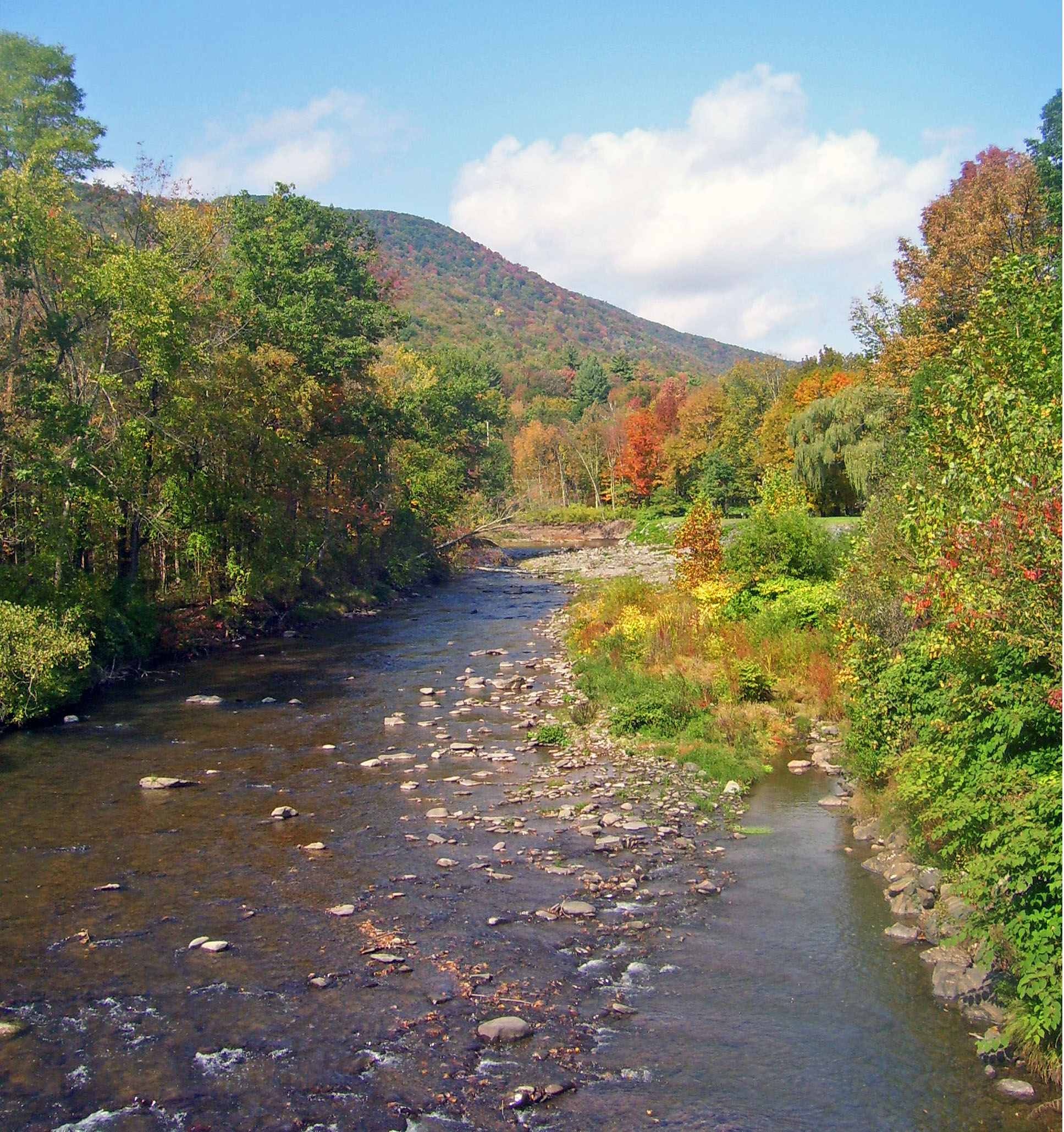 Esopus Creek seen from a bridge on NY 28 near the hamlet of Shandaken, NY, USA